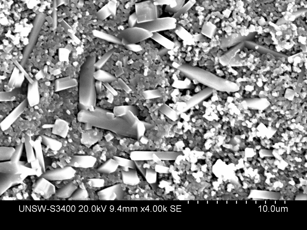 A scanning electron microscope (SEM) image showing abnormal grain growth of Rutile TiO2 alongside residual anatase grains, in the presence of ZrSiO4 Abnormal Grain Growth